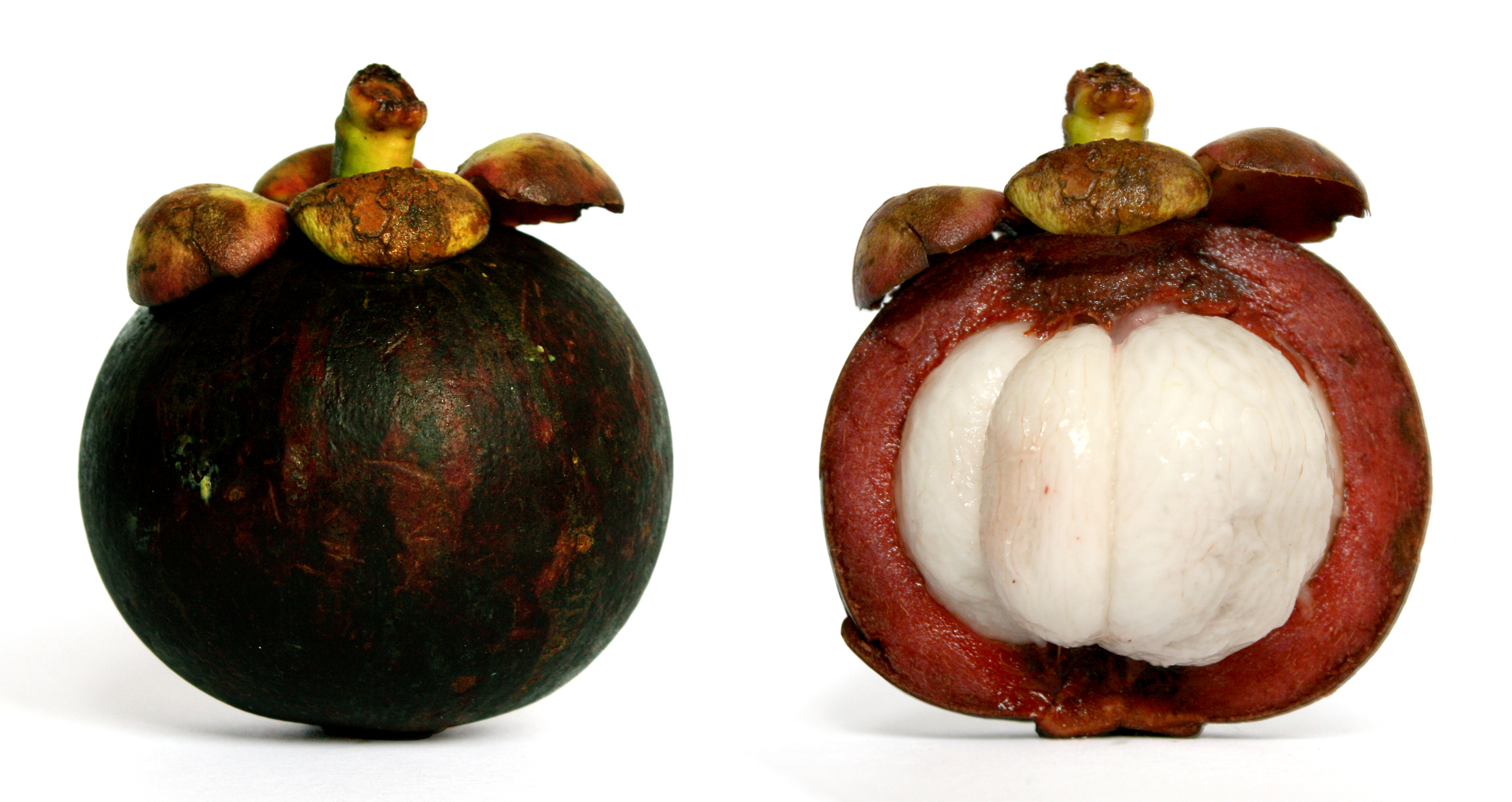 Purple mangosteen fruit (Garcinia mangostana), together with its cross section.